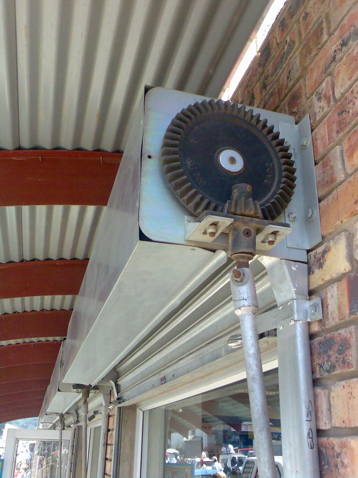 Crown-gears on roller-door at shop in Ngcobo